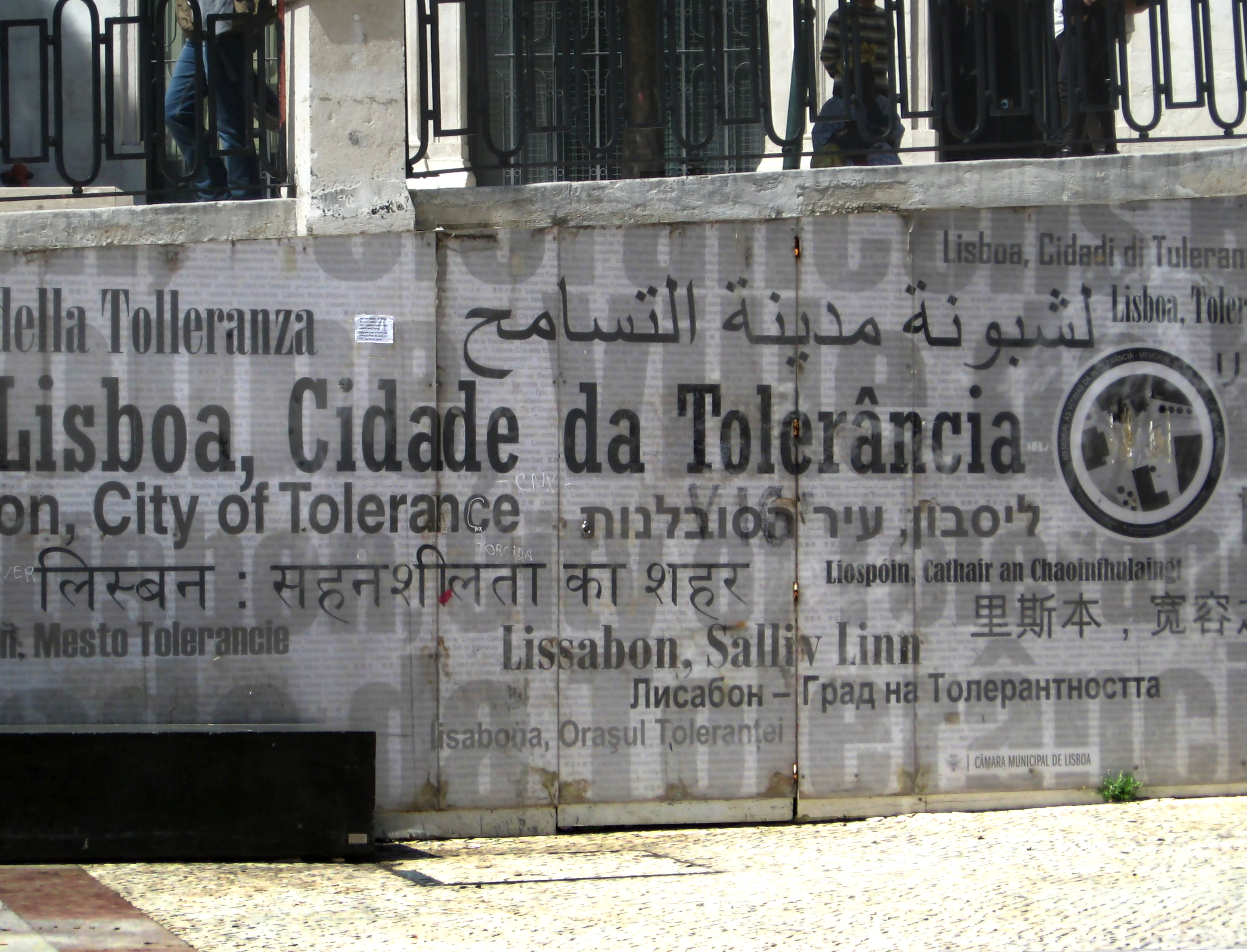 The wall of " Lisbon, city of tolerance", written in 34 different languages, close to Sao Domingo Church. The wall is a part of memorial commemorating victims of a religious massacre that took place in the centre of Lisbon in 1506 - Lisbon (Portugal)